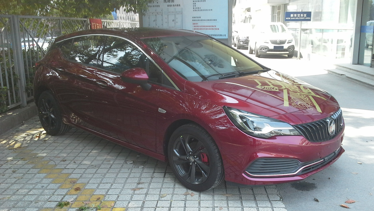 Buick Verano II hatch GS photographed in Shanghai, China.